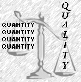 Quality is not quantity.